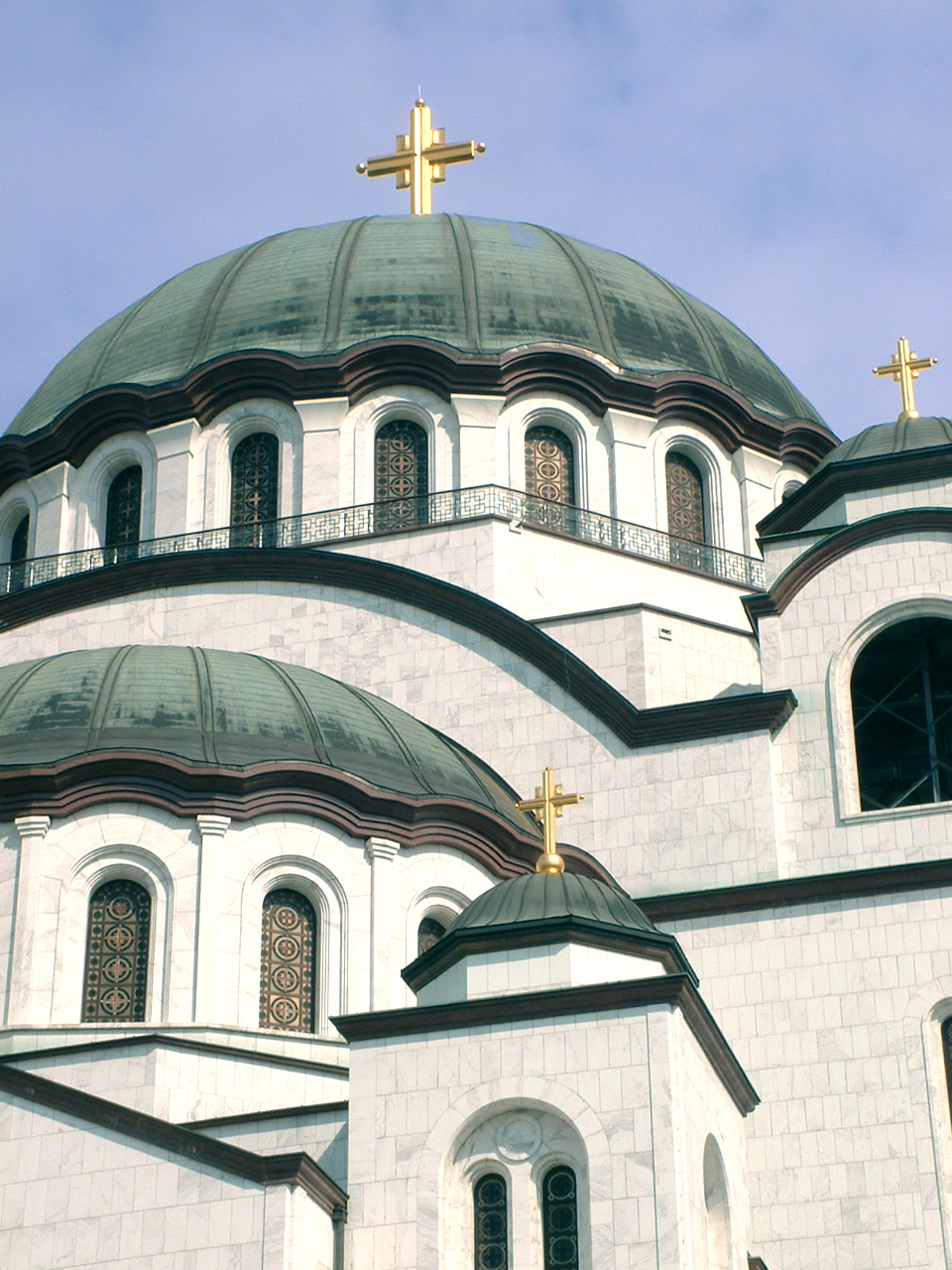 Under construction since 1932 and still under construction. You can't tell from the picture but this place is MONUMENTAL in size. You have to go and see for yourself.